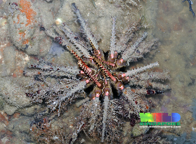 Thorny sea urchin (Prionocidaris sp.). More about this sea urchin on the wildfacts sheets on wildsingapore. For a high res version of this photo, please review the details on about using my photos. When making the request, please include this reference: 080705bbd7090